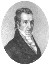 Return J. Meigs, Jr. (1764–1825), Democratic-Republican politician from Ohio.